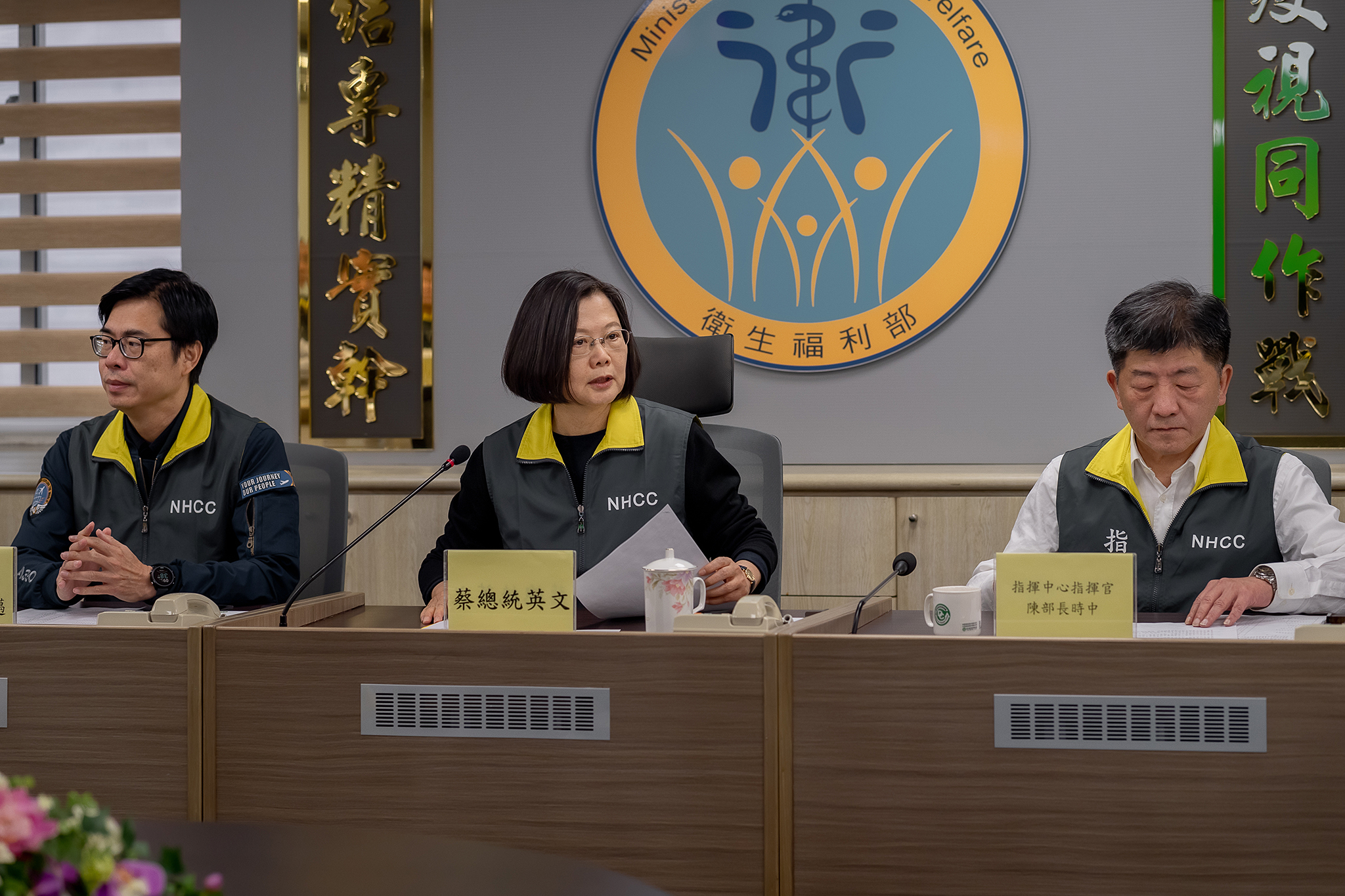 Official Photo by Makoto Lin / Office of the President